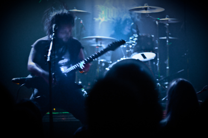 Wolves in the Throne Room, Tivoli Helling, Utrecht